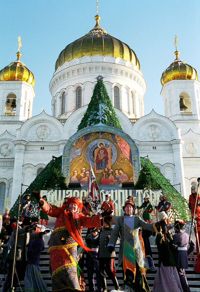 “Celebrating Christmas in Moscow”. A festive celebration of Christmas nearby the Cathedral of Christ the Savior in Moscow.